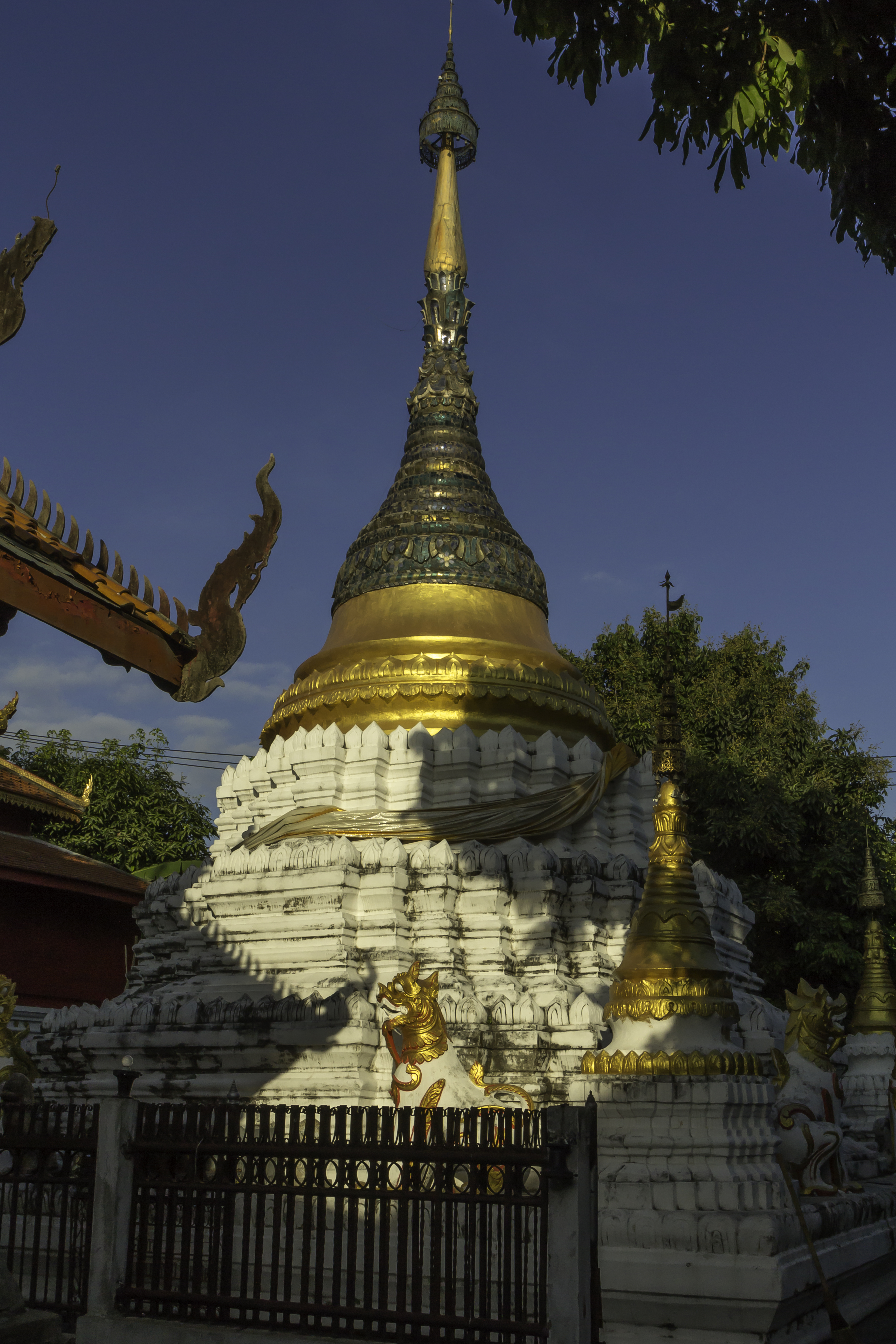 Wat Meuun Dtuum, Chiang Mai, Thailand